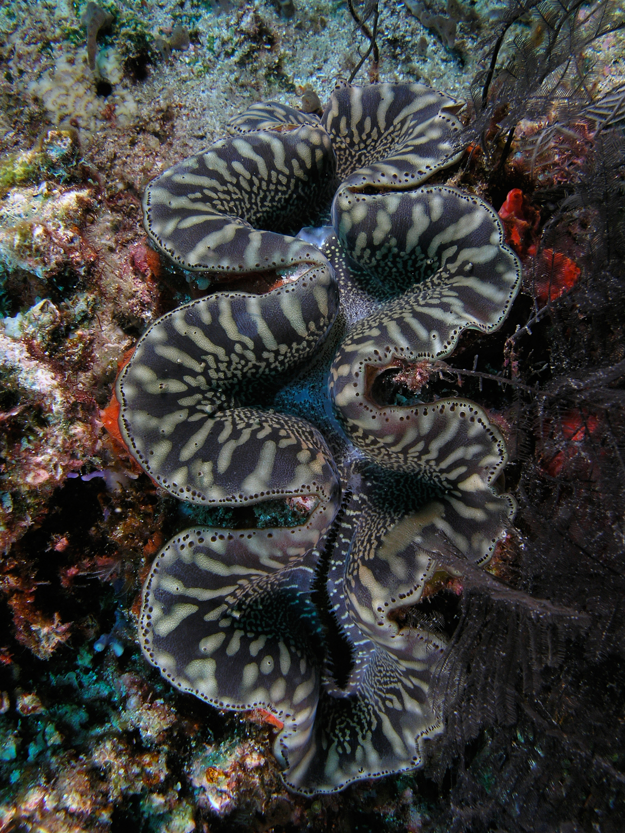 Tridacna giant clam in Komodo National Park